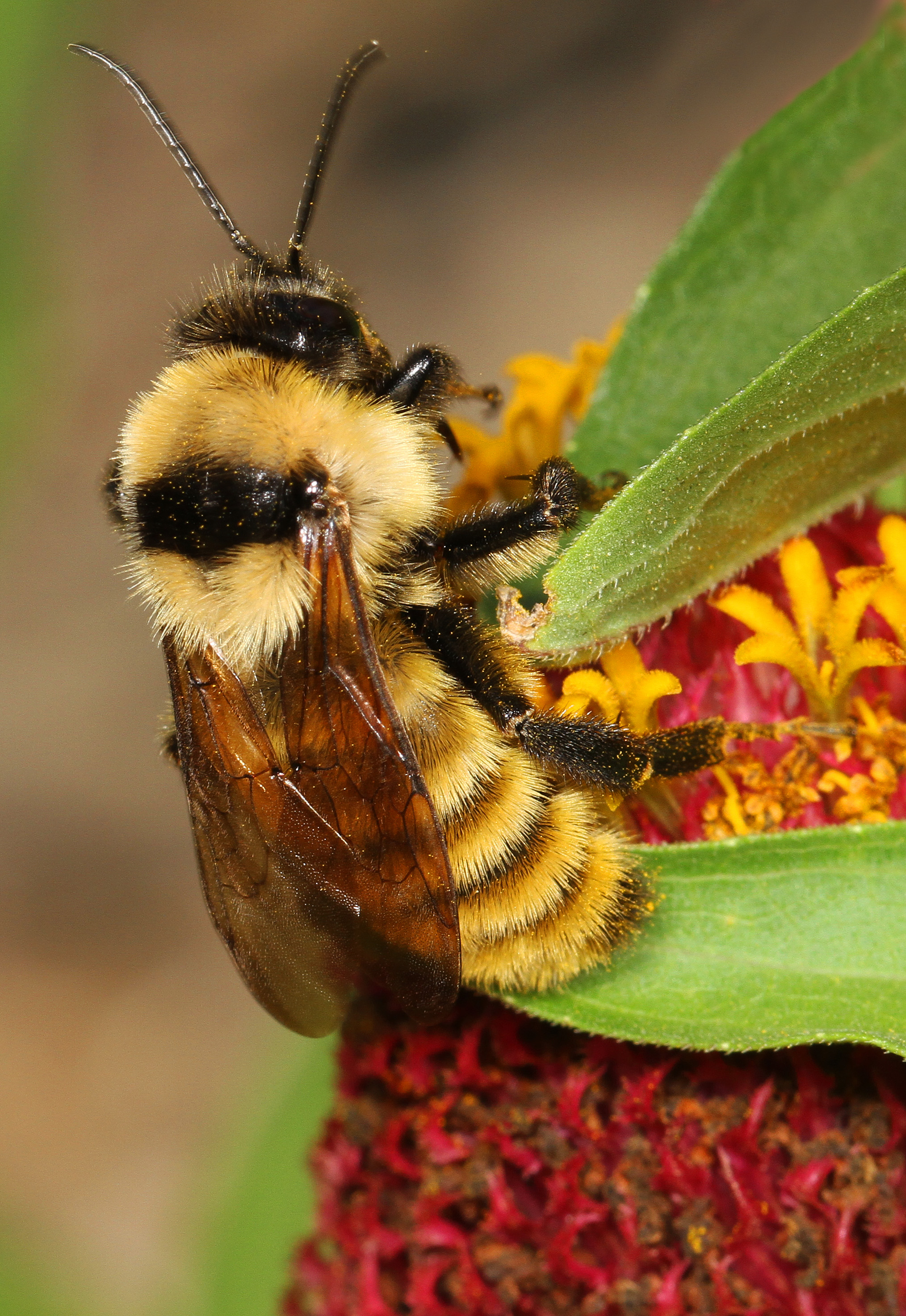 Great Northern Bumblebee - Bombus fervidus, Meadowood Farm SRMA, Mason Neck, Virginia